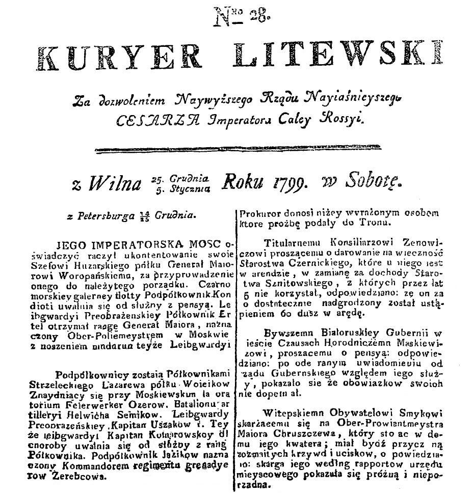 first page of newspaper "Kuryer Litewski" (#28, 1799 AD), Russian empire